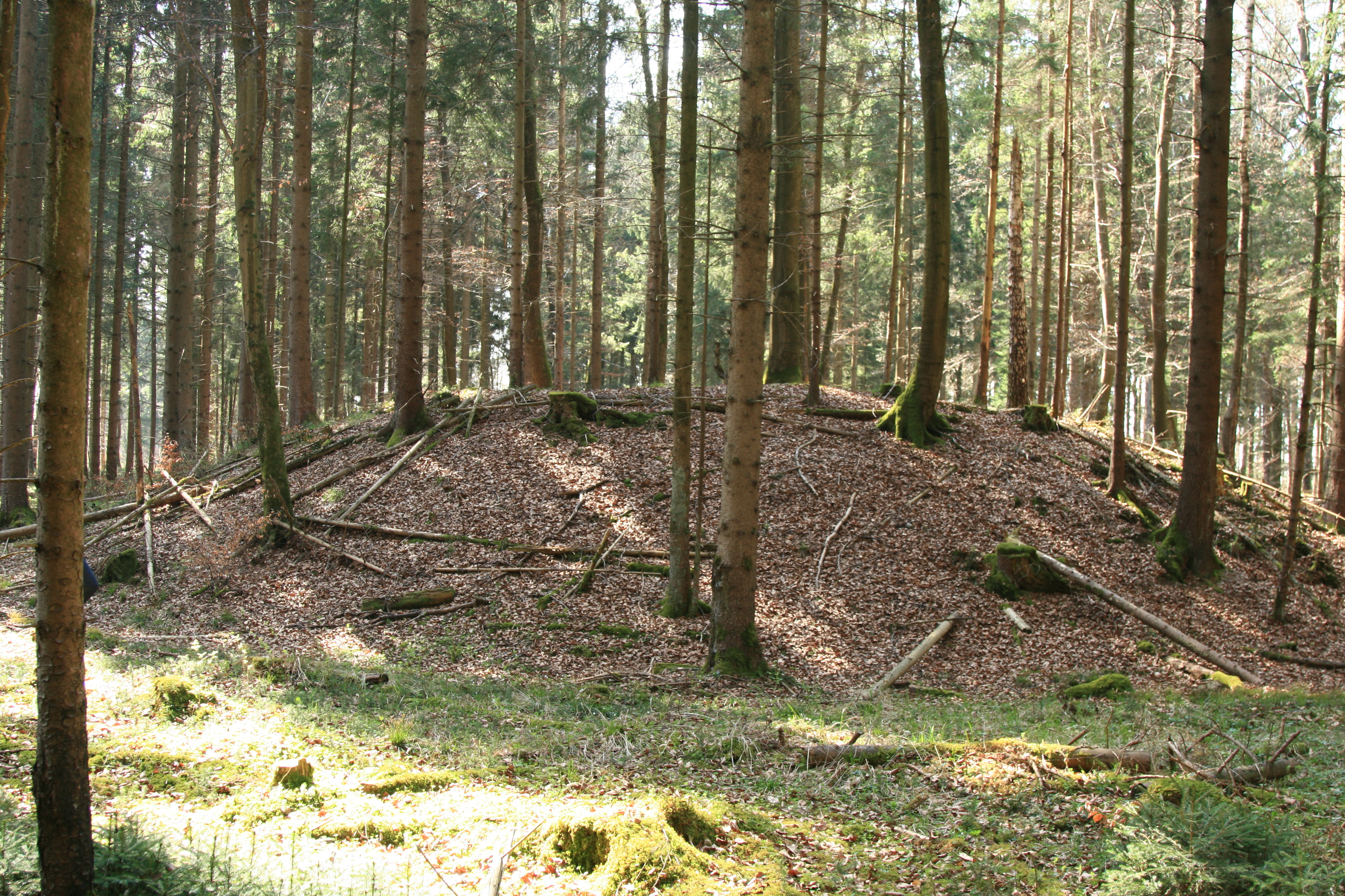 tumulus in the forest south-east of Grafrath, dated between 1600 and 300 b.C.